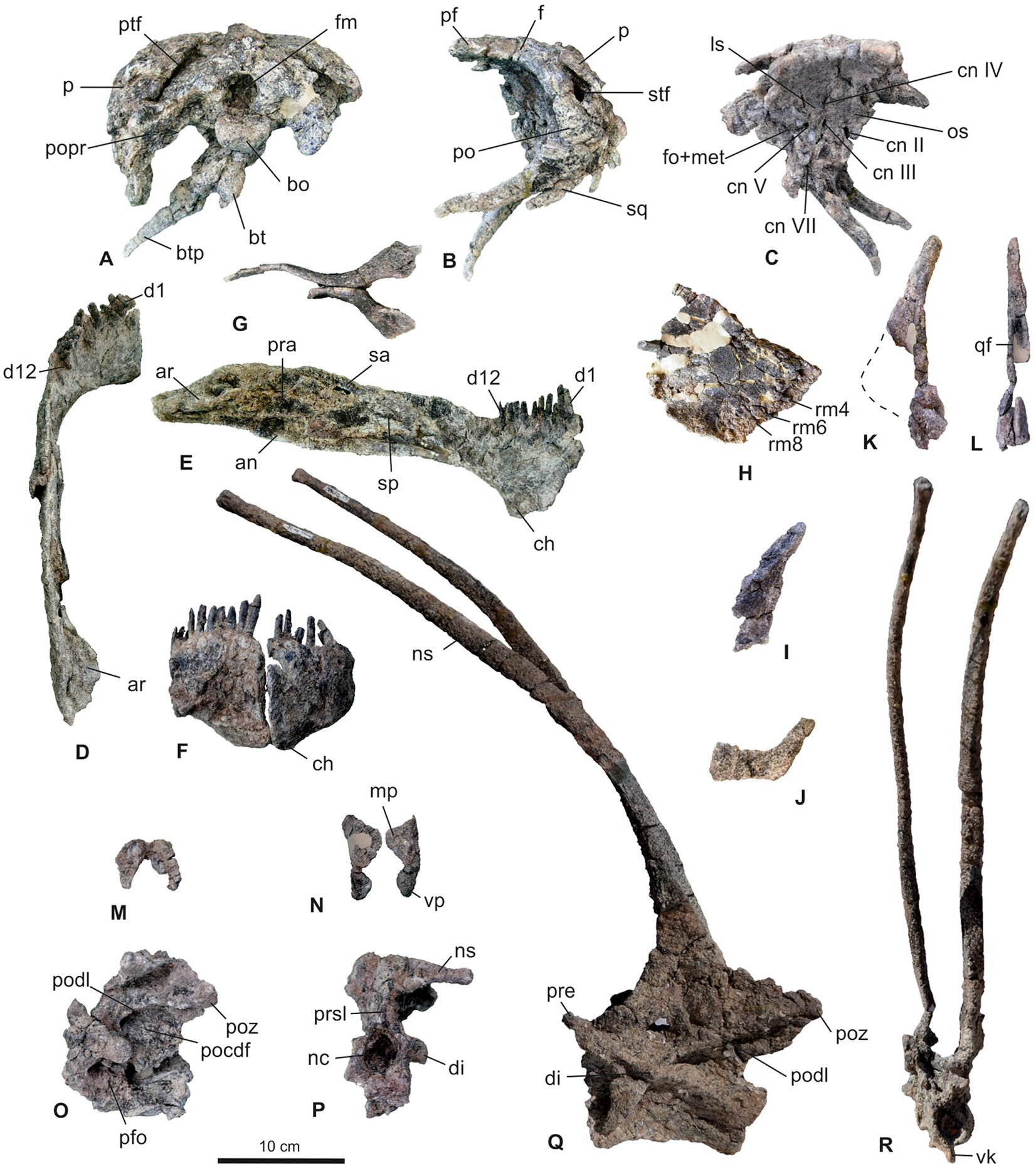 Skeletal elements of Bajadasaurus pronuspinax gen. et sp. nov (MMCh-PV 75). (A–C) Skull roof and braincase in posterior (A), left lateral (B) and right lateral (C) views. (D,E) Left lower jaw in dorsal (D) and medial (E) views. F, Dentaries in anterior view. (G) Pterygoids in ventral view. (H) Left maxilla in medial view. (I) Left lacrimal in lateral view. (J) Left quadratojugal in lateral view. (K,L) Right quadrate in medial (K) and posterior (L) views. (M) Proatlases in dorsal view. (N) Atlantal neurapophyses in anterior view. (O,P), Axis in left lateral (O) and anterior (P) views. (Q,R) Fifth cervical vertebra in left lateral (Q) and anterior (R) views. an, angular; ar, articular; bo, basioccipital; bt, basal tubera; btp, basipterygoid process; ch, ‘chin’ of dentary; cn, cranial nerve; d, dentary; di, diapophysis; f, frontal; fm, foramen magnum; fo, fenestra ovalis; ls, laterosphenoid; met, metotic foramen; mp, medial process; nc, neural canal; ns, neural spine; os, orbitosphenoid; p, parietal; pfo, pneumatic fossa; po, postorbital; pocdf, postzygapophyseal centrodiapophyseal fossa; podl, postzygodiapophyseal lamina; popr, paraoccipital process; poz, postzygapophysis; pra, prearticular; pre, prezygapophysis; prsl, prespinal lamina; ptf, postemporal fenestra; qf, quadrate fossa; rm, replacement maxillary tooth; sa, surangular; sp, splenial; sq, squamosal; stf, supratemporal fenestra; vk, ventral keel; vp, ventral process.